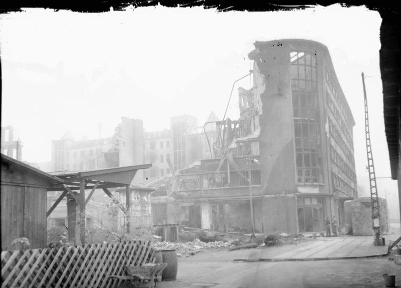 Royal Air Force- 2nd Tactical Air Force, 1943-1945. Operation CARTHAGE: the daylight raid on the Gestapo Headquarters at Shellhuset (Shell House) in Copenhagen, 21 March 1945. The burnt-out remains of Shell House at the corner of Nyropsgade and Kampmandsgade, two months after the raid by 18 De Havilland Mosquito FB Mark VIs of No. 140 Wing, No. 2 Group.